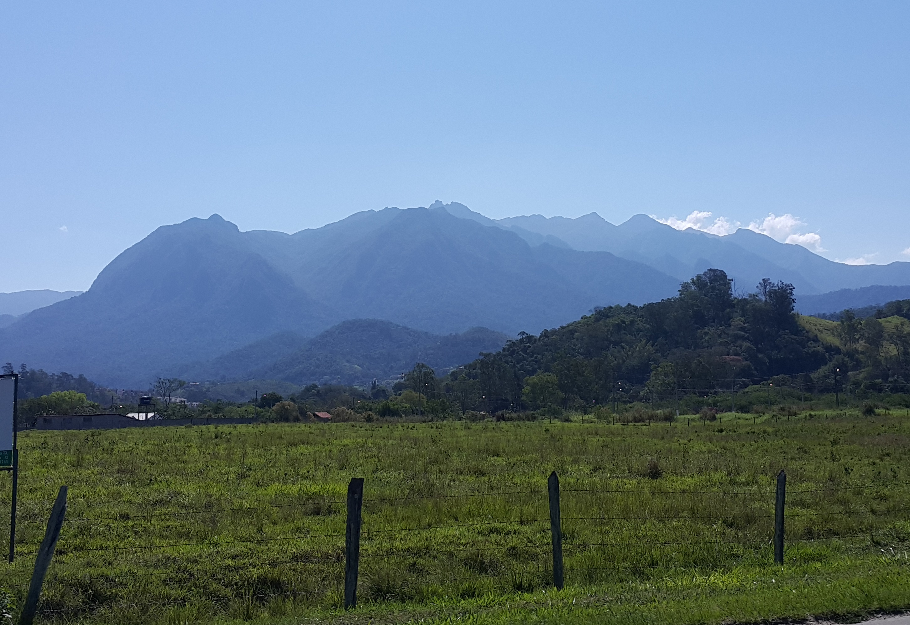 The Itatiaia massif seen from RJ-163 highway, in Itatiaia, Rio de Janeiro, Brazil.